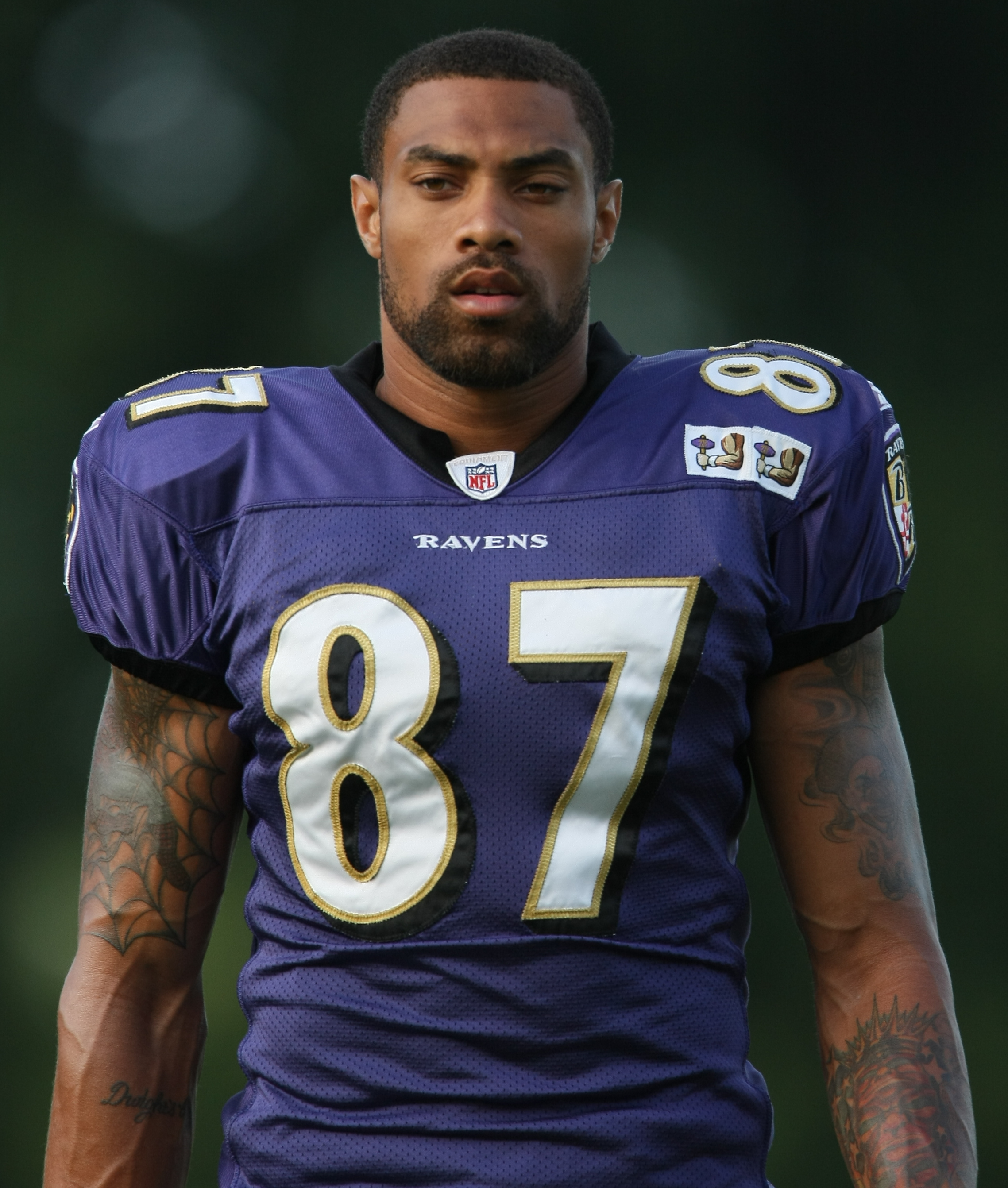 Demetrius Williams at Baltimore Ravens Training Camp on August 5, 2009